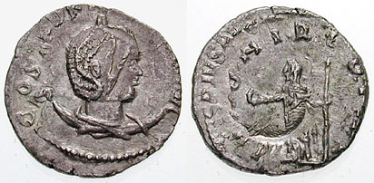 Sulpicia Dryantilla, wife of Regalianus. Circa 260 AD. Antoninianus (3.36 gm). Carnuntum mint. SVLP [DRYANTILLA AVG], diademed and draped bust right, resting on crescent [IVN]ONI RED[INE], Juno standing left, holding patera and sceptre. RIC V pt. 2, 2; Göbl C11, pl. 4, 11 (same dies); Cohen 1. Overstruck on a denarius of Maximinus Thrax. Following the capture of Valerian by the Persian army, one of Valerian's generals serving in Illyricum, Cornelius Publius Caius Regalianus, seized power. All of Regalianus' coinage has been attributed to a mint in Carnuntum (on the Danube between modern Hainburg and Bratislava in Hungary). His wife was Sulpicia Dryantilla, whose father, Sulpicius Pollio, was an officer under Caracalla. Regalianus was killed by his own troops after a very short reign and Dryantilla most likely shared his fate.